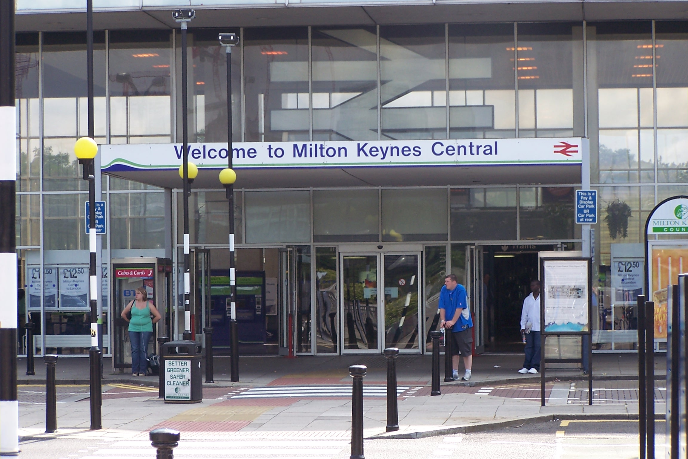 Milton Keynes Central Station, entrance